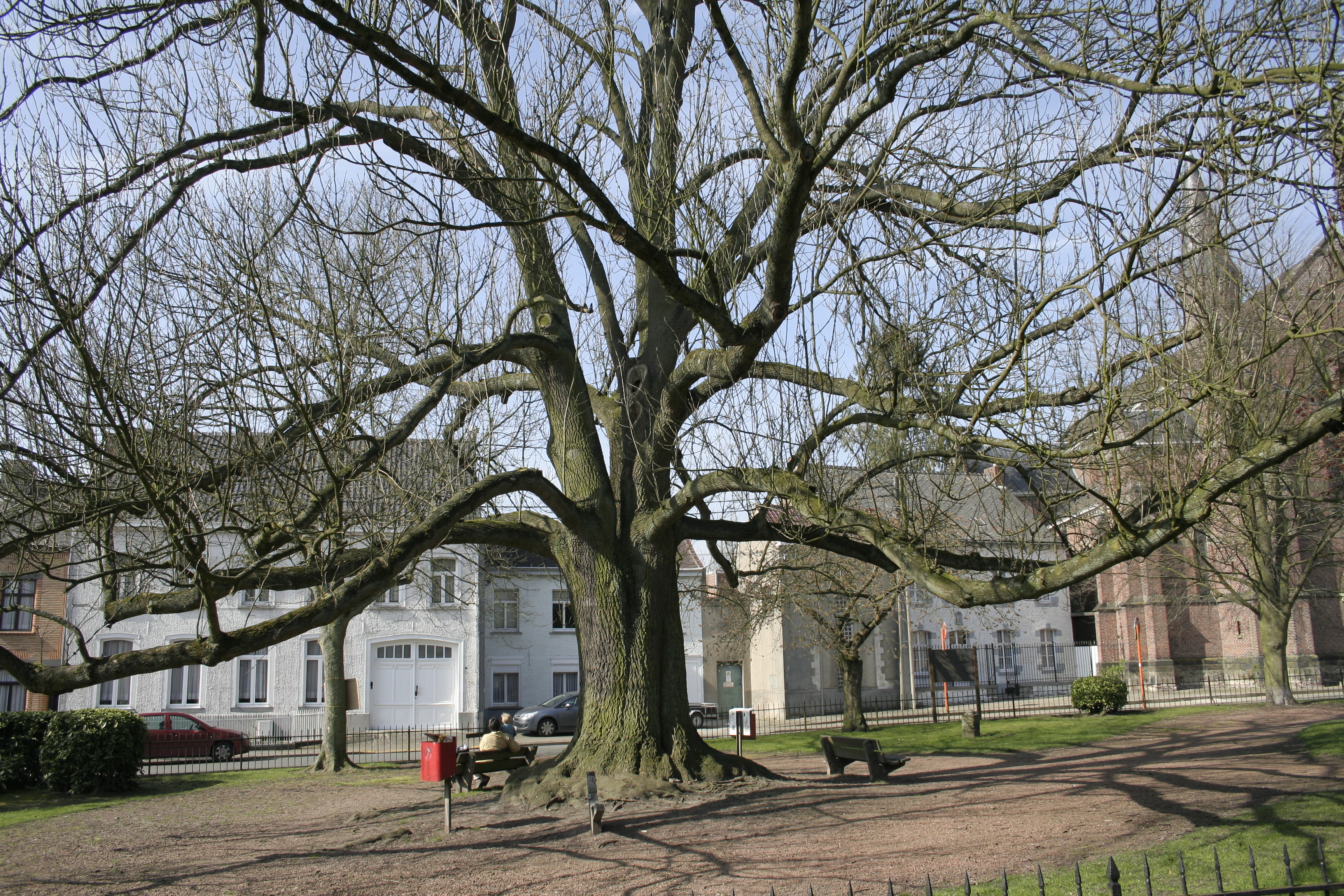 Ash.